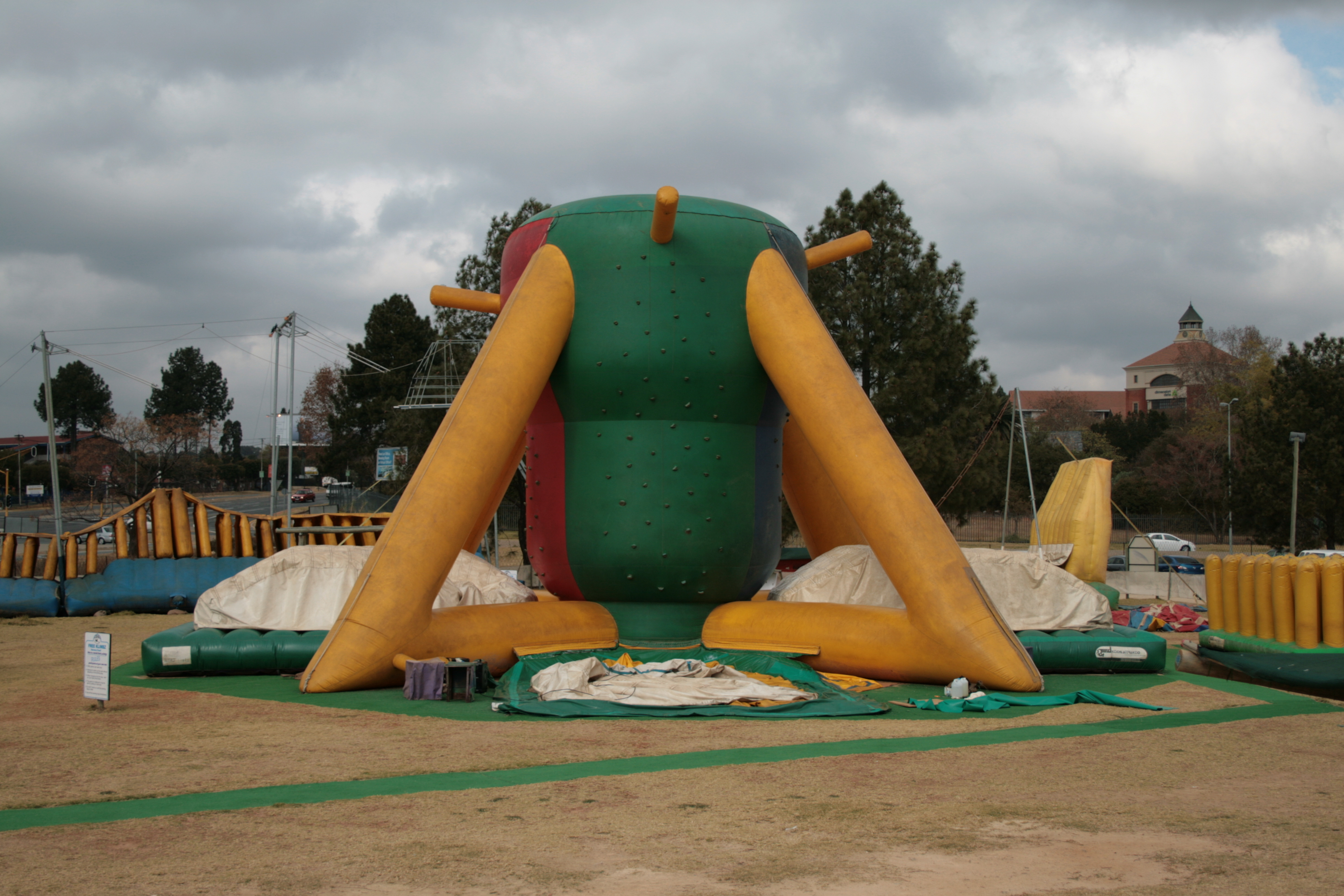 An inflatable climbing wall, Johannesburg, South Africa